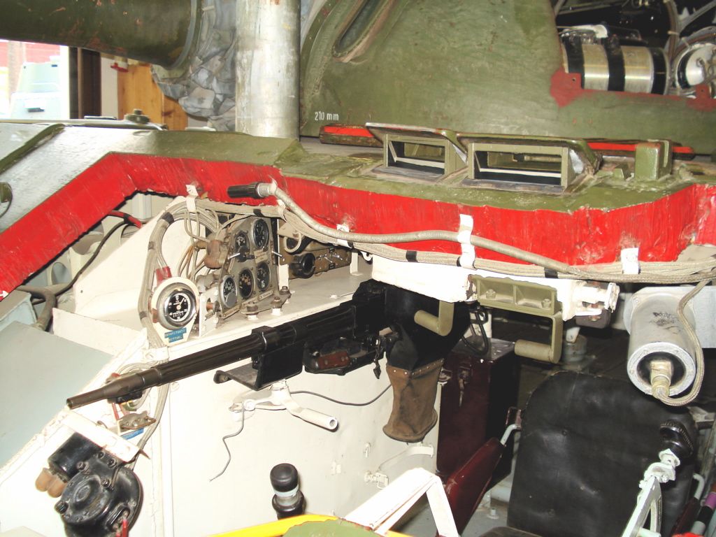 Russian T-54 tank, used by Finland. This model was cut open in for training purposes. Various systems of the tank have been illustrated with different colors. Finnish Tank Museum (Panssarimuseo) in Parola. Photo taken on July 14, 2006. Source: Photo by me, User:Balcer.